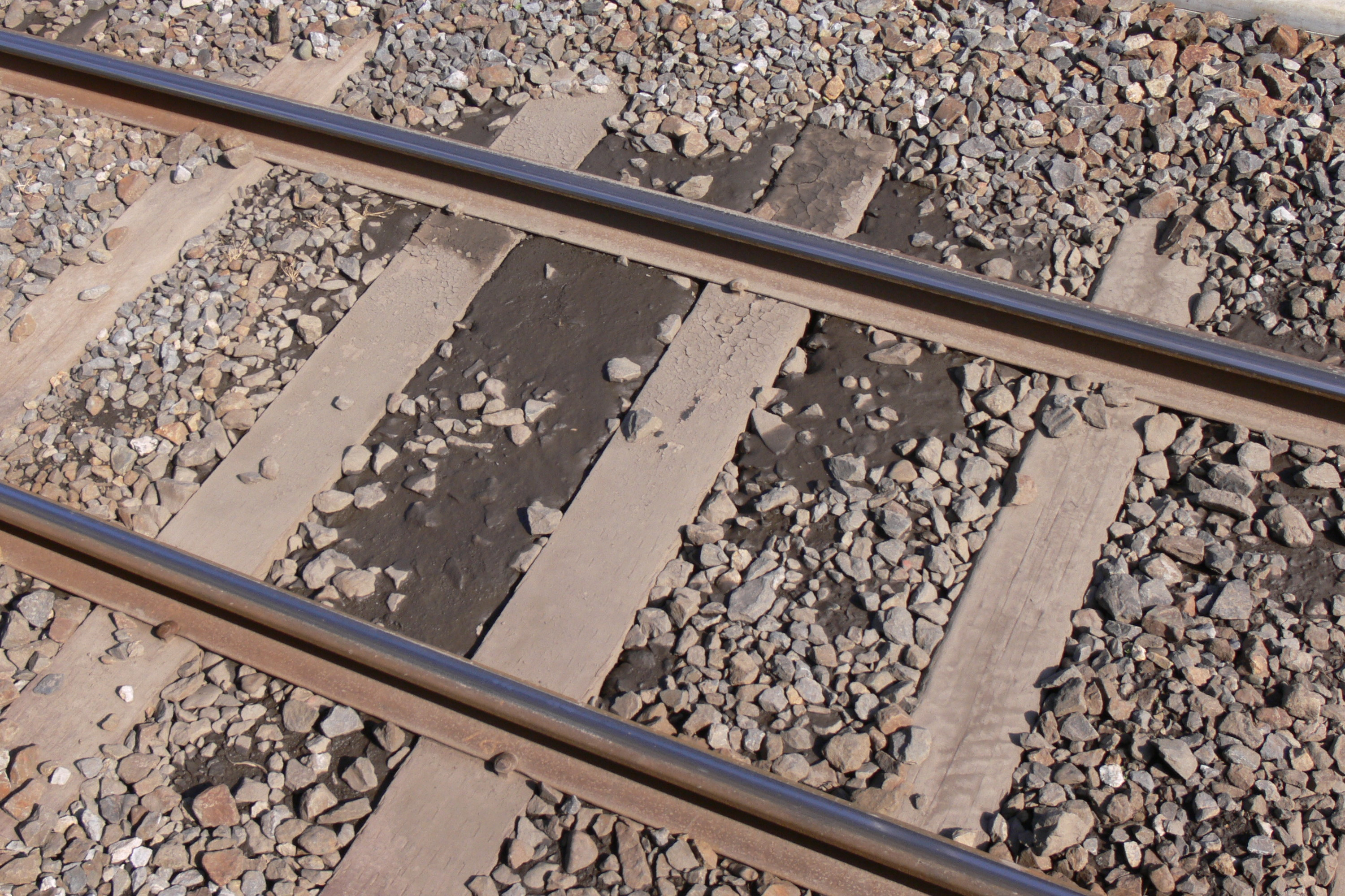 Railway track Mud eruption(Japan).